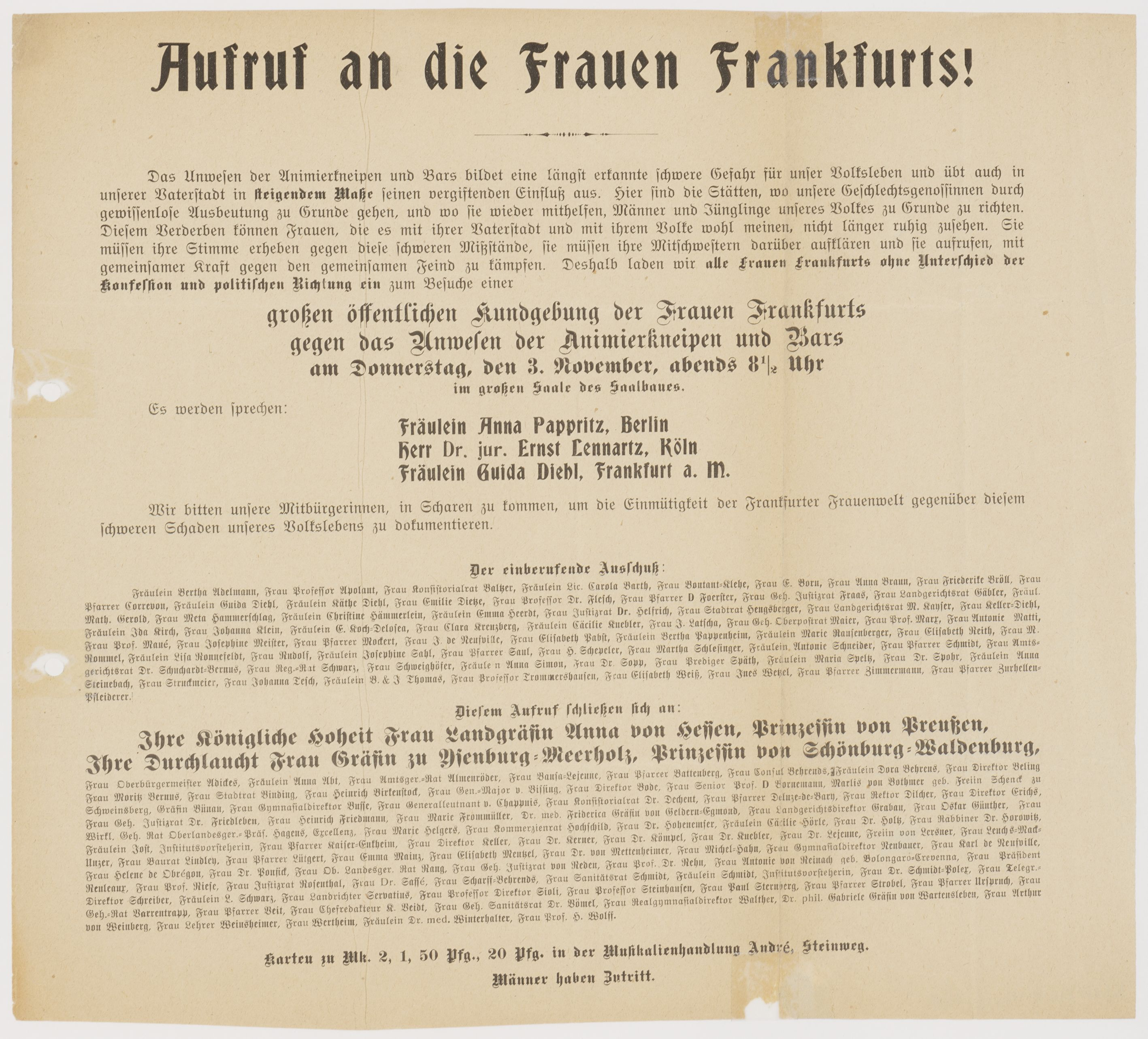 Appeal to women of Frankfurt for the abolition of bars (with "hostesses") in Aufruf an die Frauen Frankfurts zur Abschaffung von Animierkneipen und Bars; Speaker among others Anna Pappritz, leaflet, paper, about 1910. Photo of leaflet in repository of Archiv der deutschen Frauenbewegung (Archive of German Women's Movement), Kassel, Signature NL-K-16; J-158. Fotograf: Horst Ziegenfusz im Auftrag des Historischen Museums Frankfurt. Published in Dorothee Linnemann (ed.): Damenwahl! 100 Jahre Frauenwahlrecht. Begleitbuch zur Ausstellung. Societäts-Verlag, Frankfurt am Main 2018, ISBN 978-3-95542-306-3, p. 57.